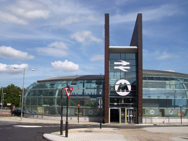 The new futuristic St Helens Central station